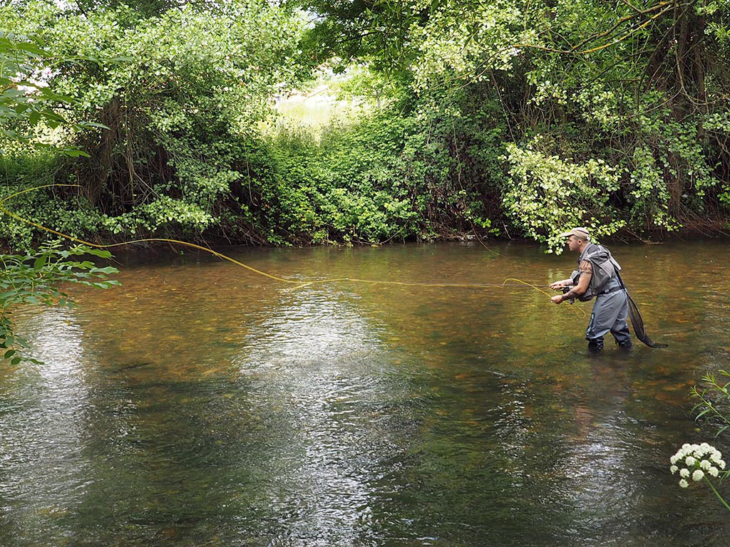 Pescador en río Cubia